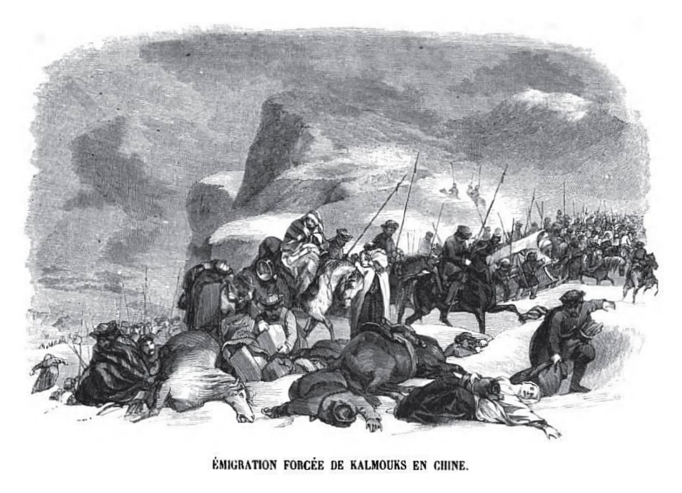 Forced emigration of the Kalmyks to China in 1771 (Geoffroy, 1845).